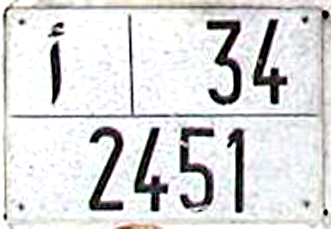 morroco_license_plate_agdir_2451